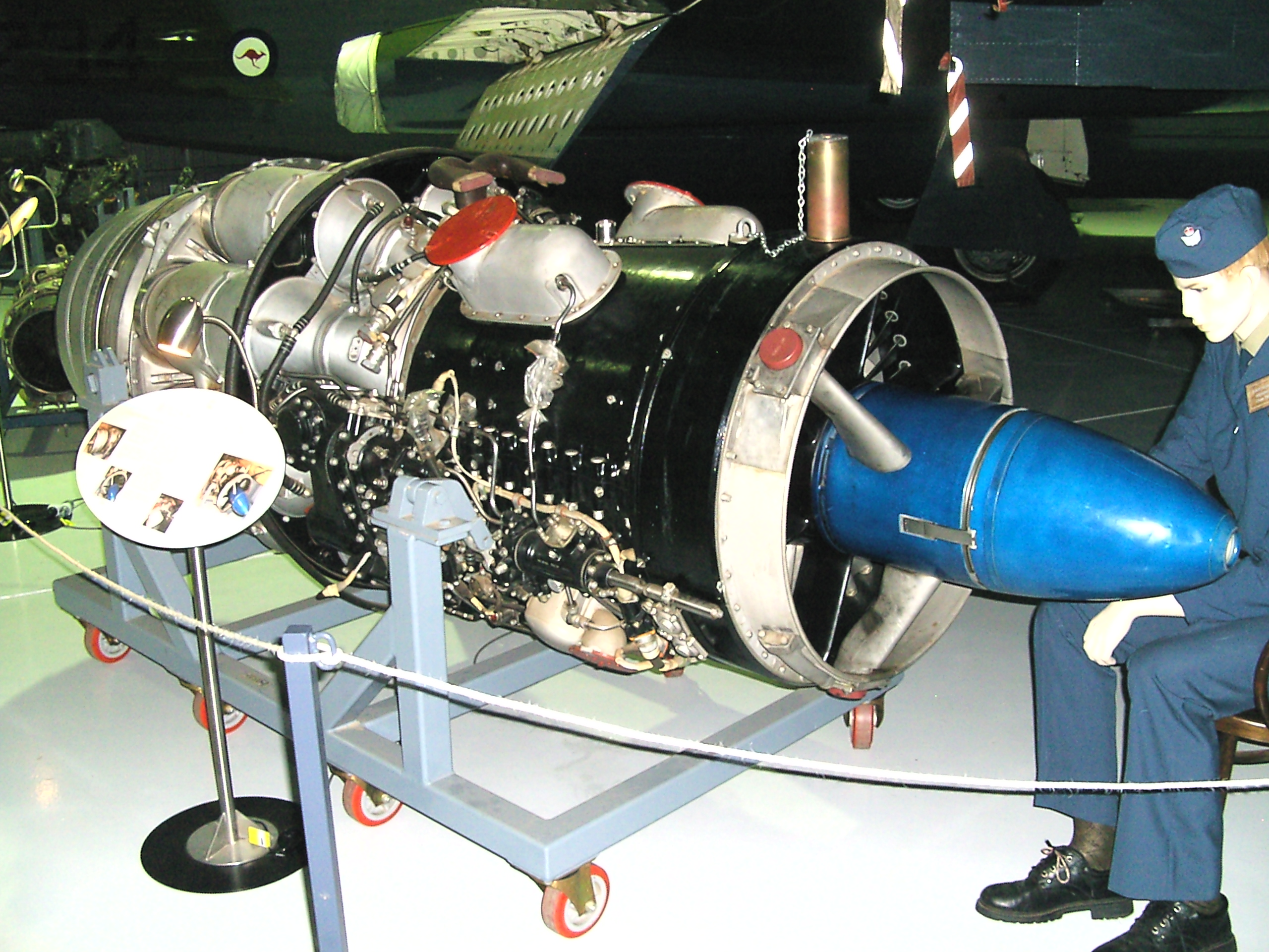 Rolls-Royce Avon jet engine (Temora Aviation Museum); note scale from clothed in uniform of RAAF